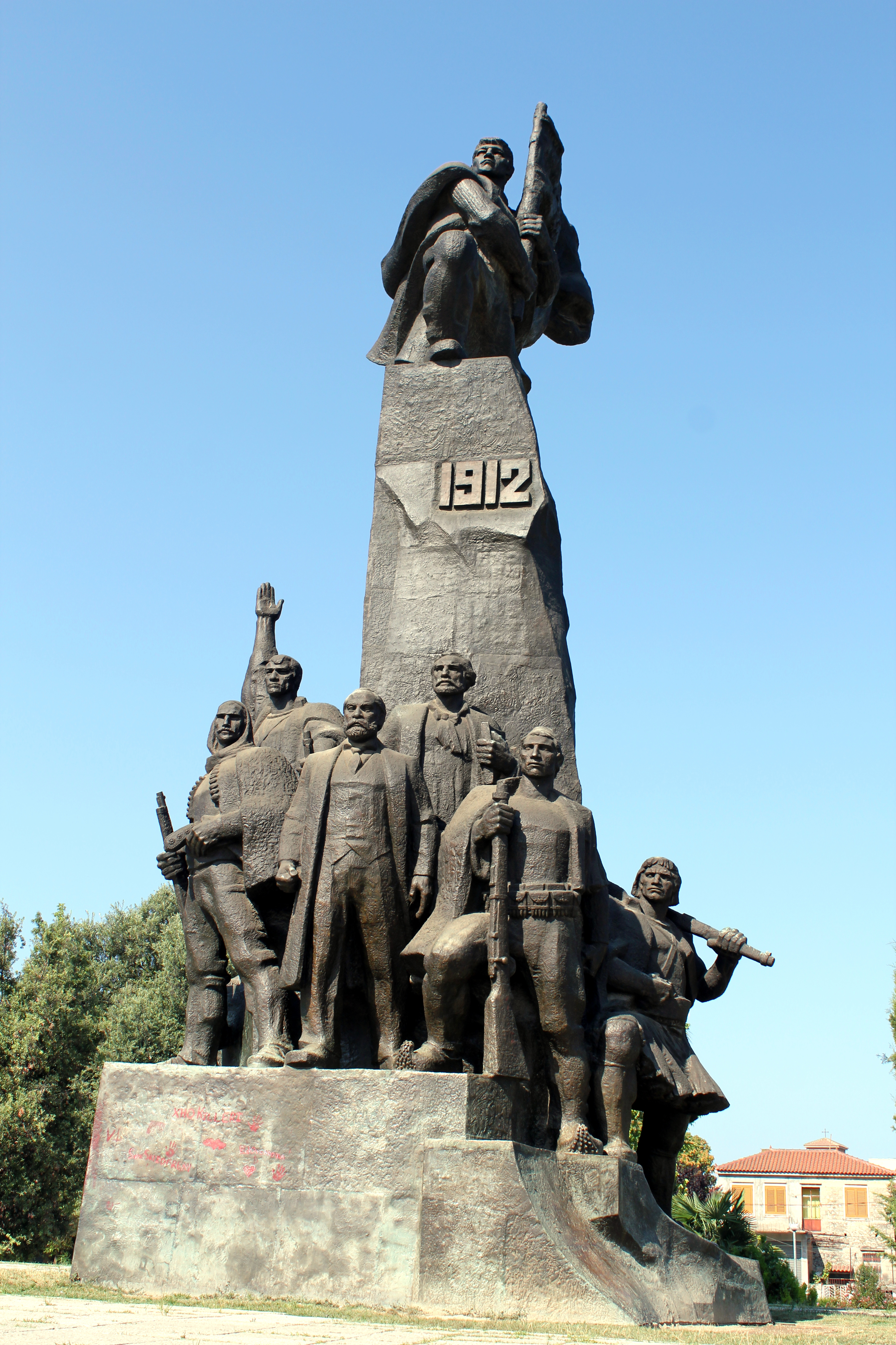 Monument of Independence of Albania, Vlora